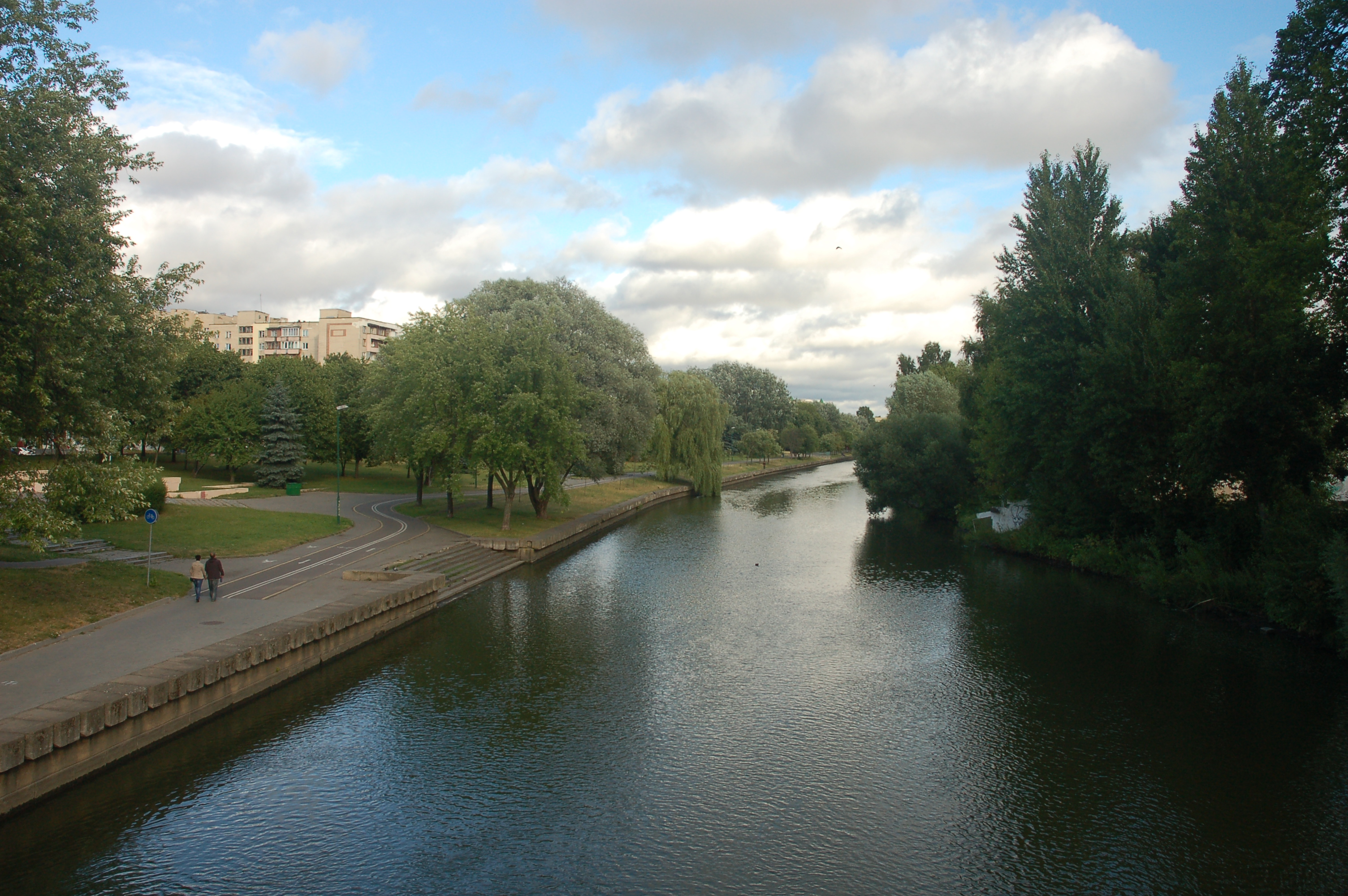 Minsk, the Svislach River viewed from Pershamajskaja Street